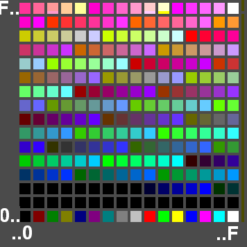 A 256-colour palette in a GIF image file